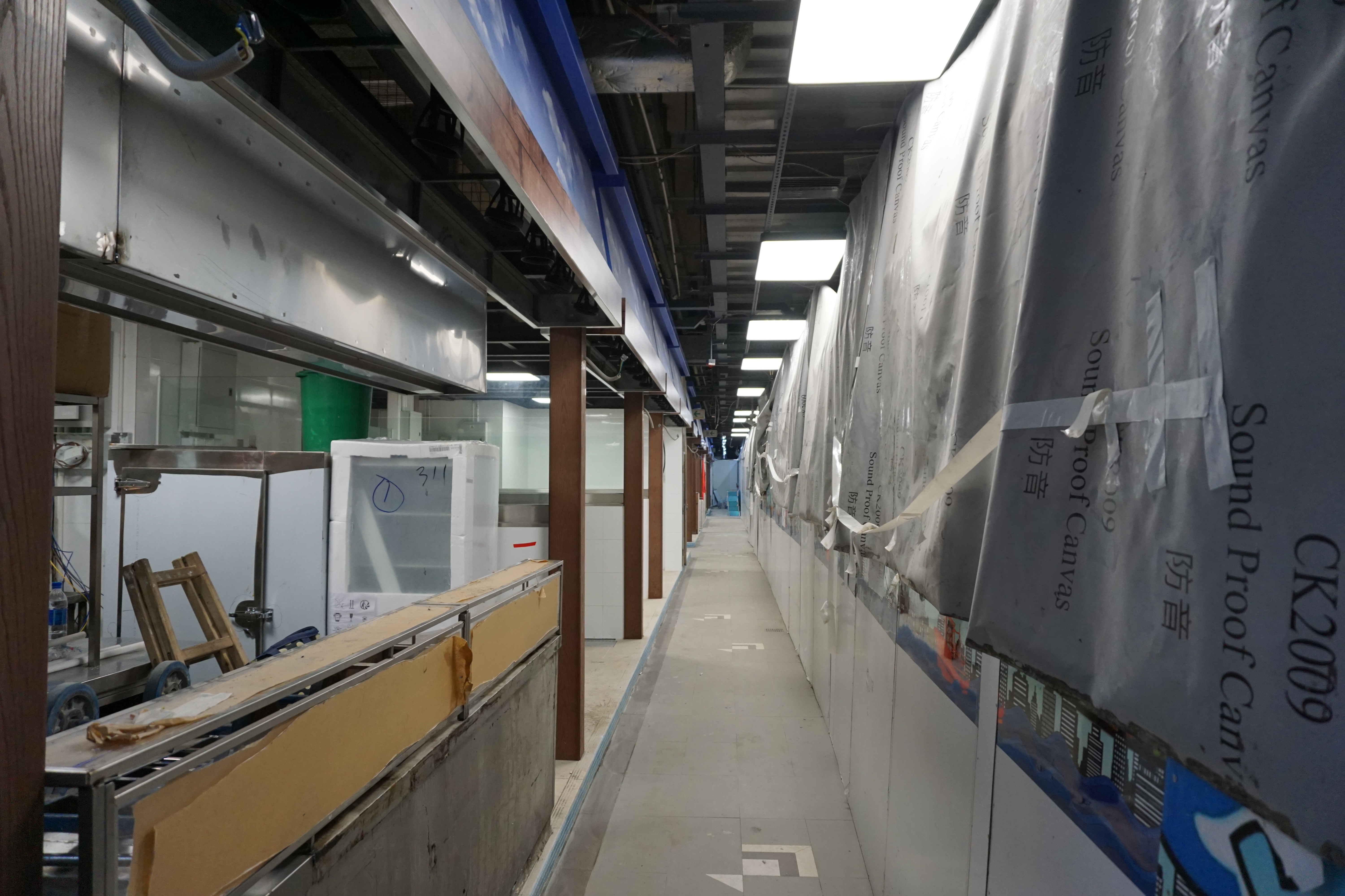 Lei Yue Mun Plaza Market in Yau Tong, Hong Kong.